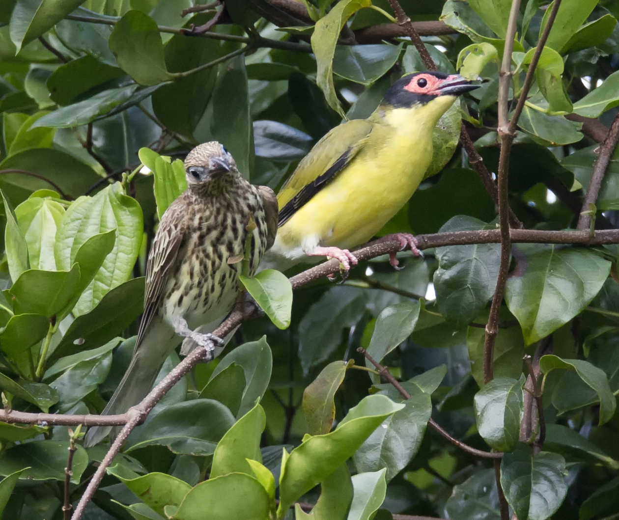 A pair of Australasian Figbirds in Bellenden Ker Range, Far North Queensland, Queensland, Australia.